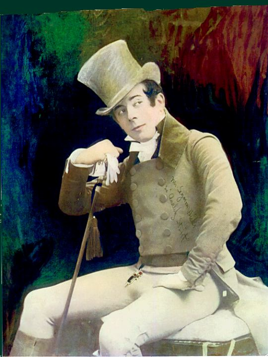 Drawing of Seymour Hicks in Quality Street from a book entitled "Players of the Day", published in London by George Newnes, circa 1902.